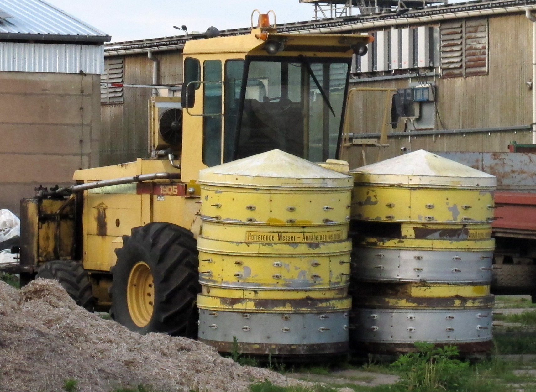 "Blücher 02" Machine for the harvest of industrial fibre hemp. Taken at the area of Hanffaser Uckermark in may 2014.